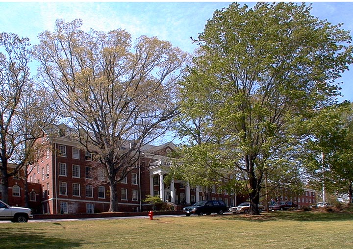 Hargrave Military Academy's main building.